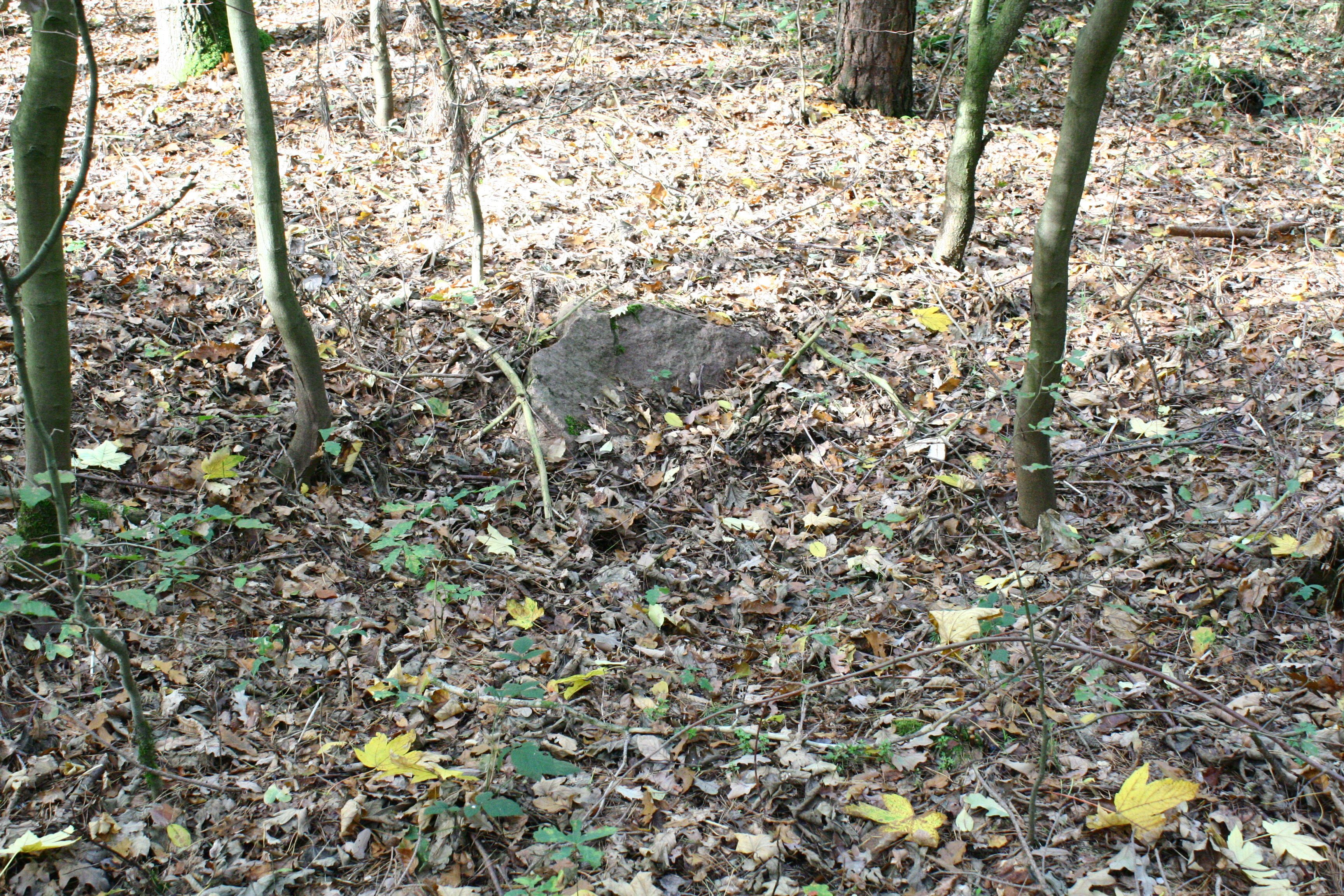 Possible remains of megalithic tomb Haldensleben I 11